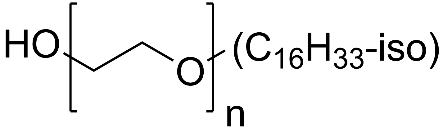 Chemical structure of isoceteth (Isoceteth-20 where n~20